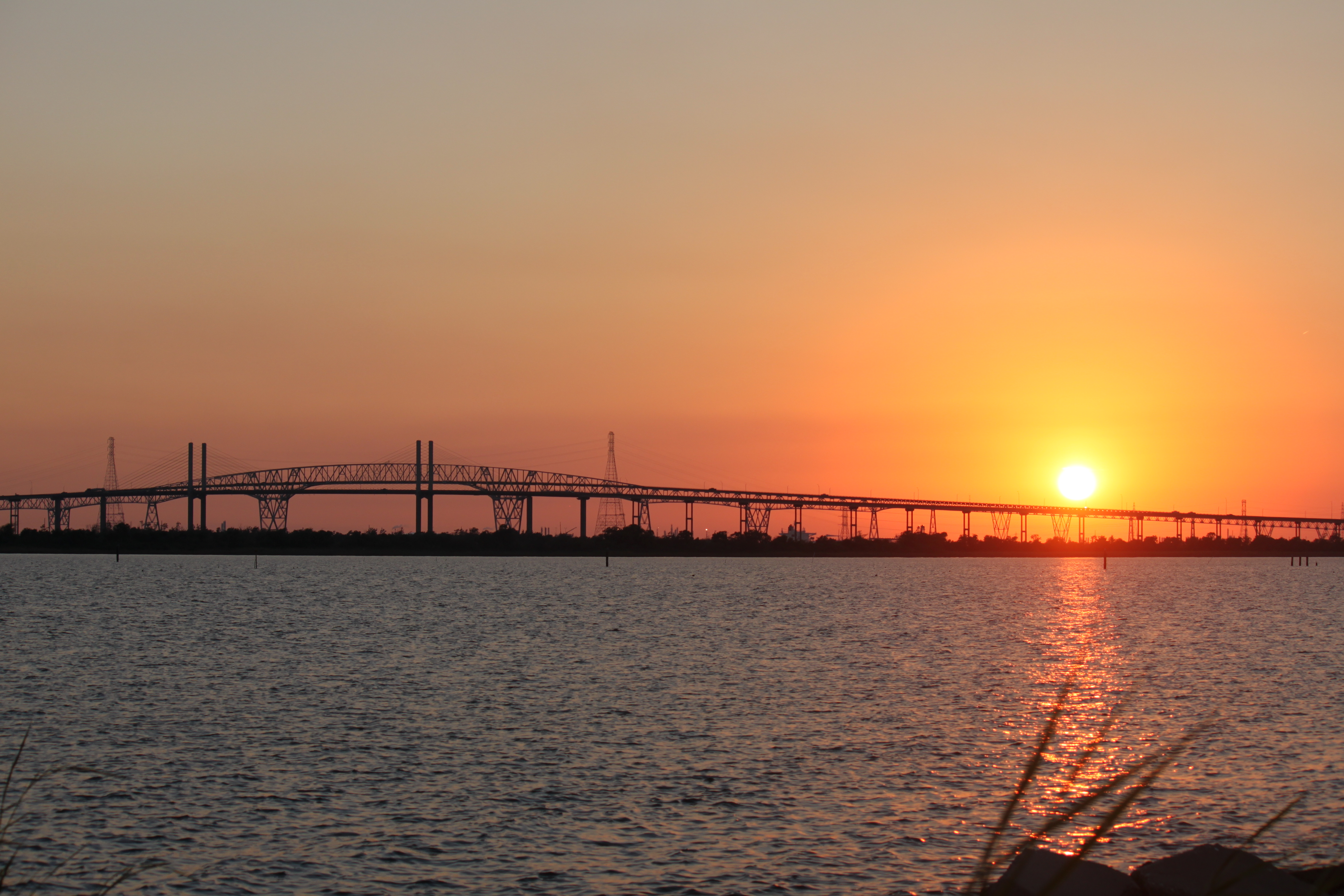 Rainbow Bridge at sunset